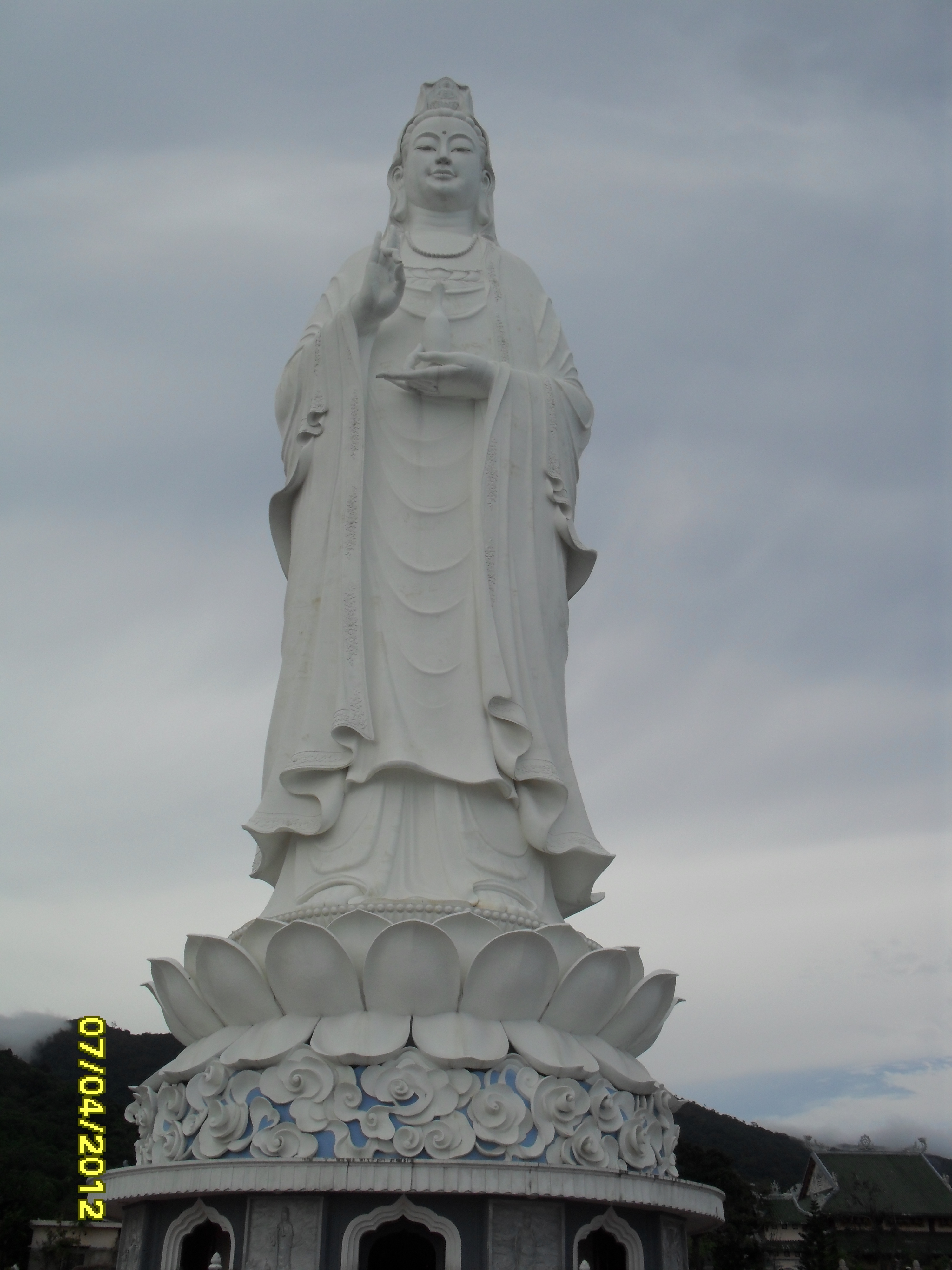 Avalokitesvara Statue - Linh Ung Pagoda - Da Nang City - VietnamTiếng Việt: Tượng Quán Thế Âm Bồ-tát, Chùa Linh Ứng - Đà Nẵng